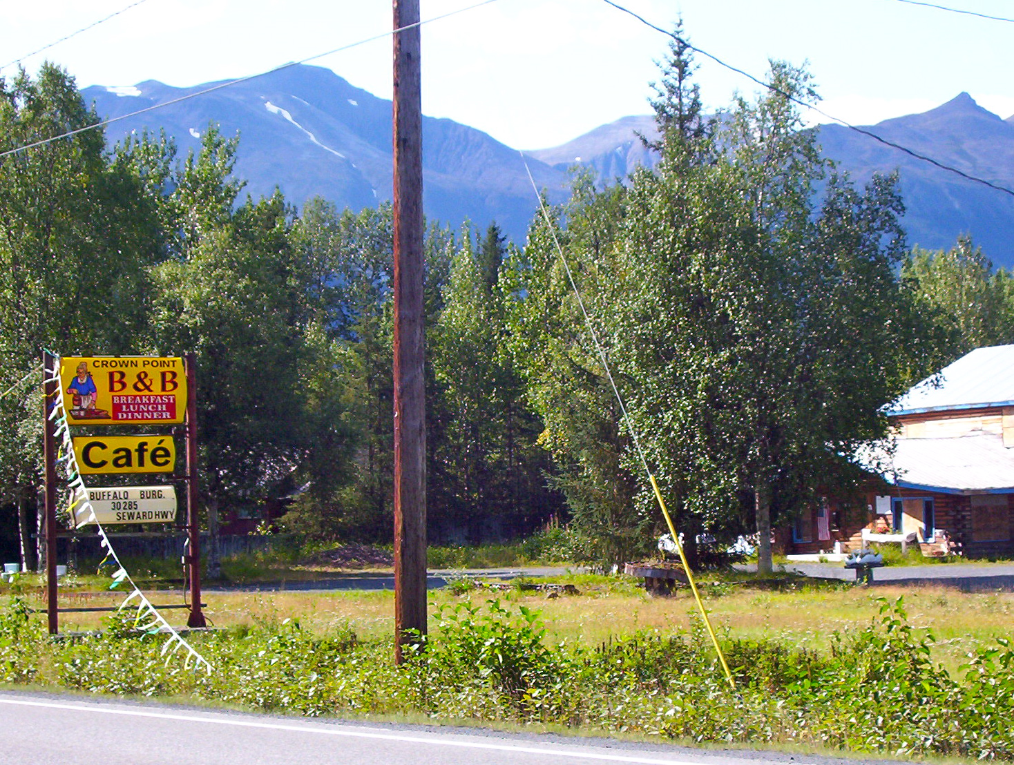 The only thing I could find in this area with the name "Crown Point" on it Licensing Category:Images of Alaska